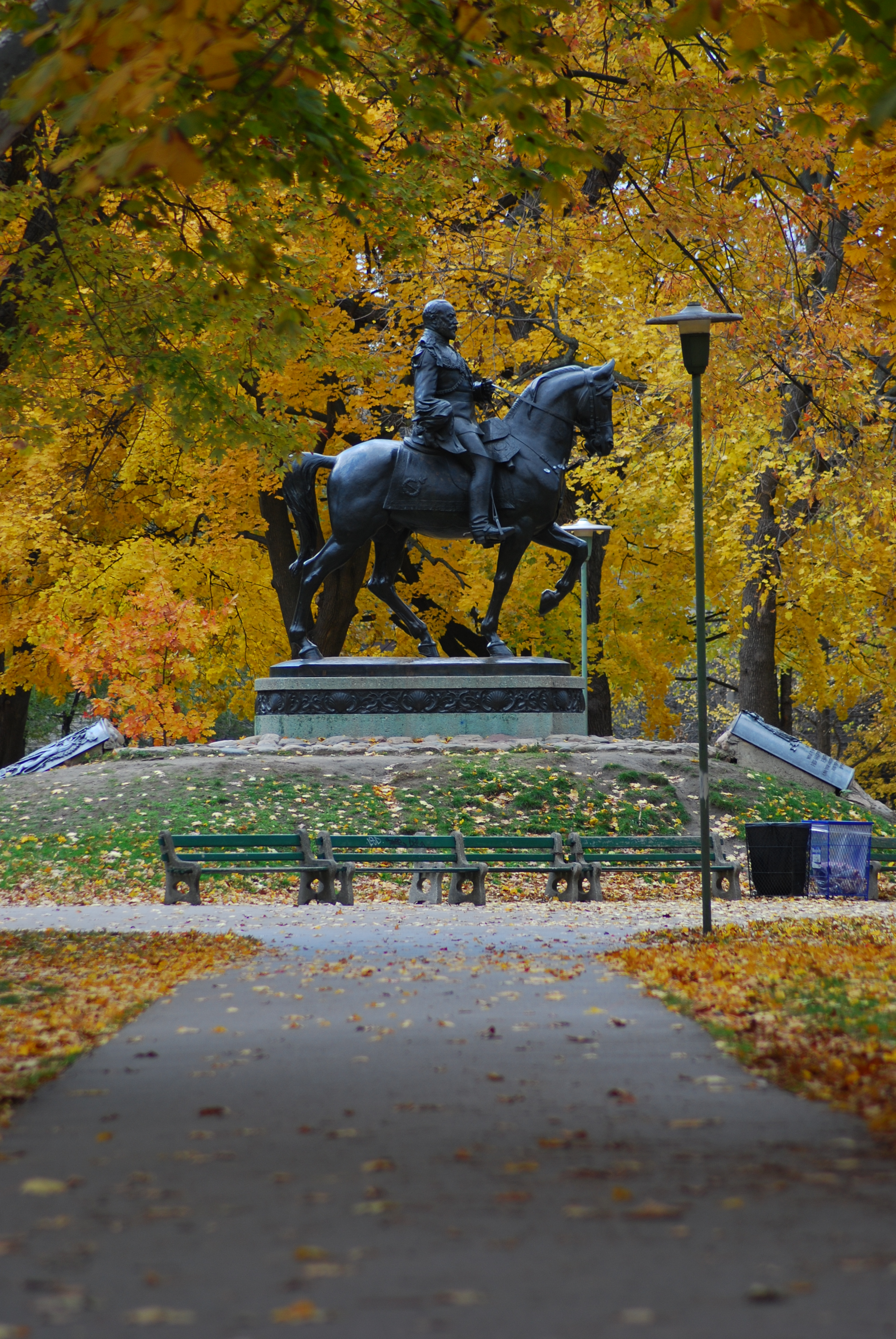 An autumn view of Queen's Park in Toronto, Ontario.